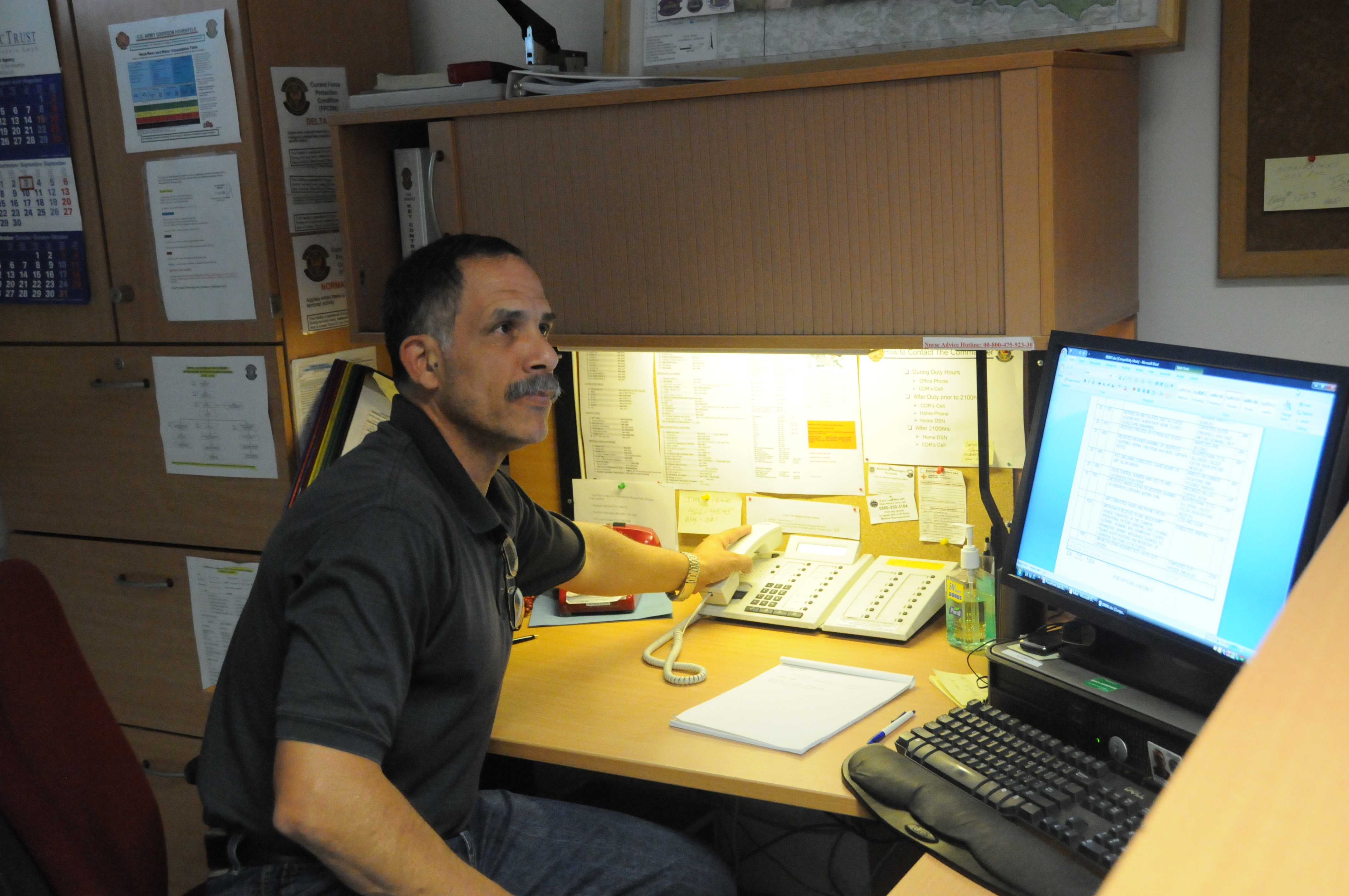 Luis Pagan-Arroyo, duty officer at the U.S. Army Garrison Hohenfels Installation Operations Center, might look like your average office worker, but he and his four colleagues are the garrison's behind-the-scenes machine that, among many other things, provide help during emergencies.